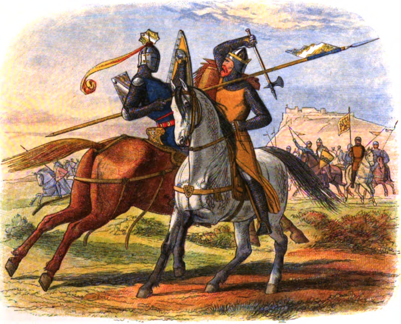 Robert the Bruce kills Sir Henry de Bohun on the first day of the Battle of Bannockburn.